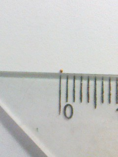 It's triops longicaudatus's spawn.